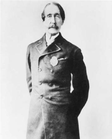 From Bekoff, Marc. 1998. Encyclopedia of Animal Rights and Animal Welfare. 1st ed. Greenwood Press.